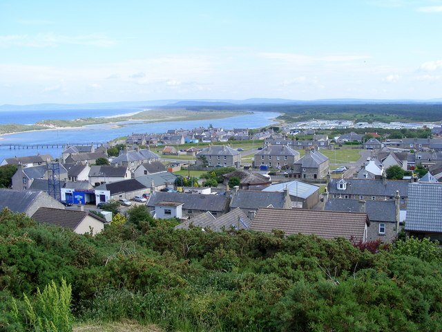 A view of Lossiemouth